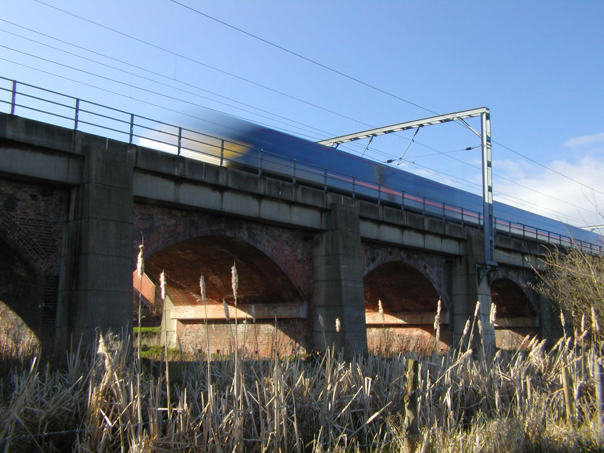 Bawtry rail viaduct near Doncaster, UK